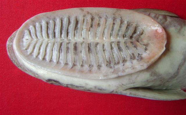 Remora remora collected in Pakistan.